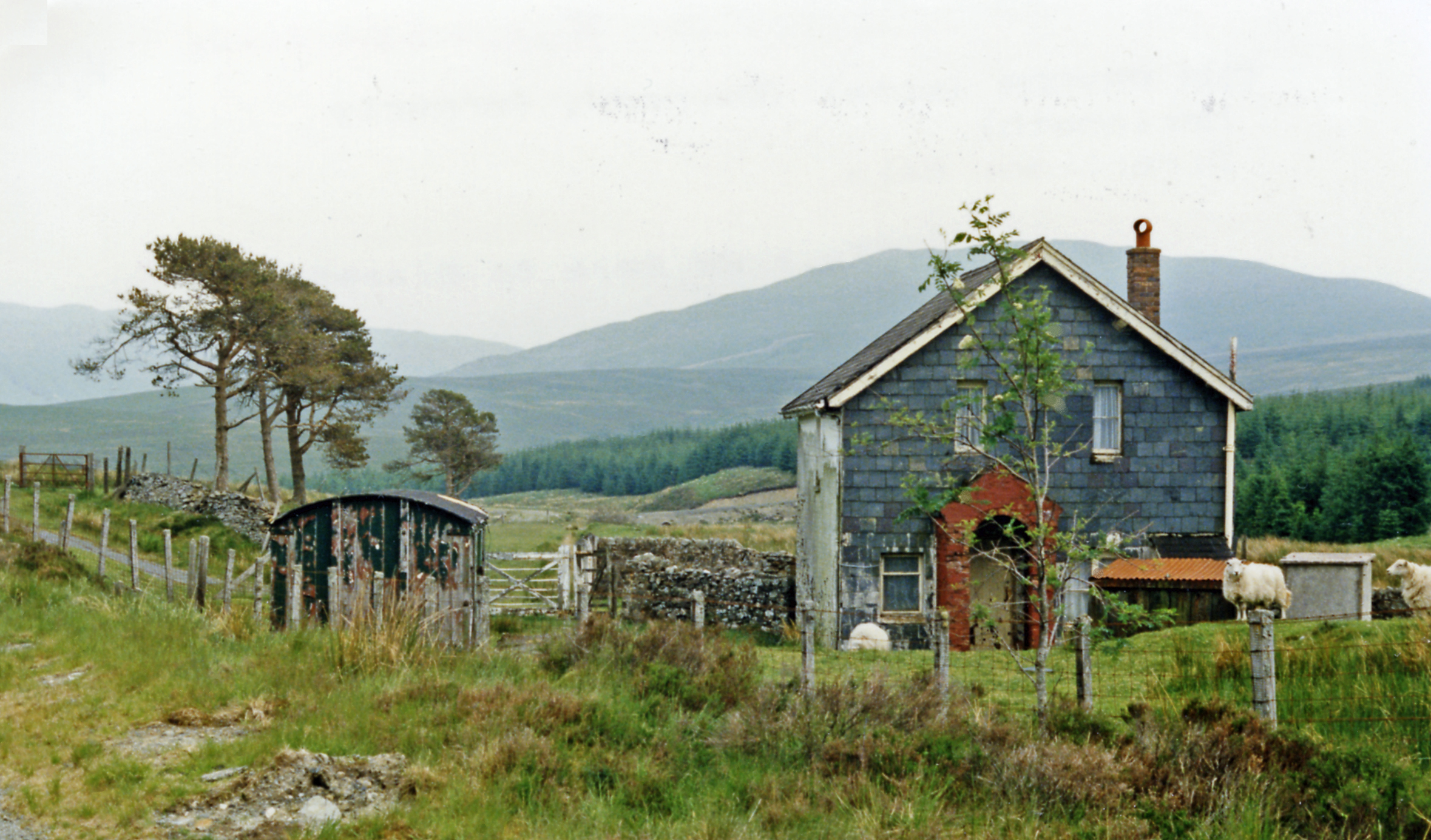 Cwm Prysor station (remains), 1986. View SE, towards Bala: ex-GW Bala - Blaenau Ffestiniog line, closed 4/1/60. This is about 1,300 ft. above sea-level: behind is Moel Tryfnant (2,451 ft.) and over to the left is Arenig Fawr (2,900 ft.).